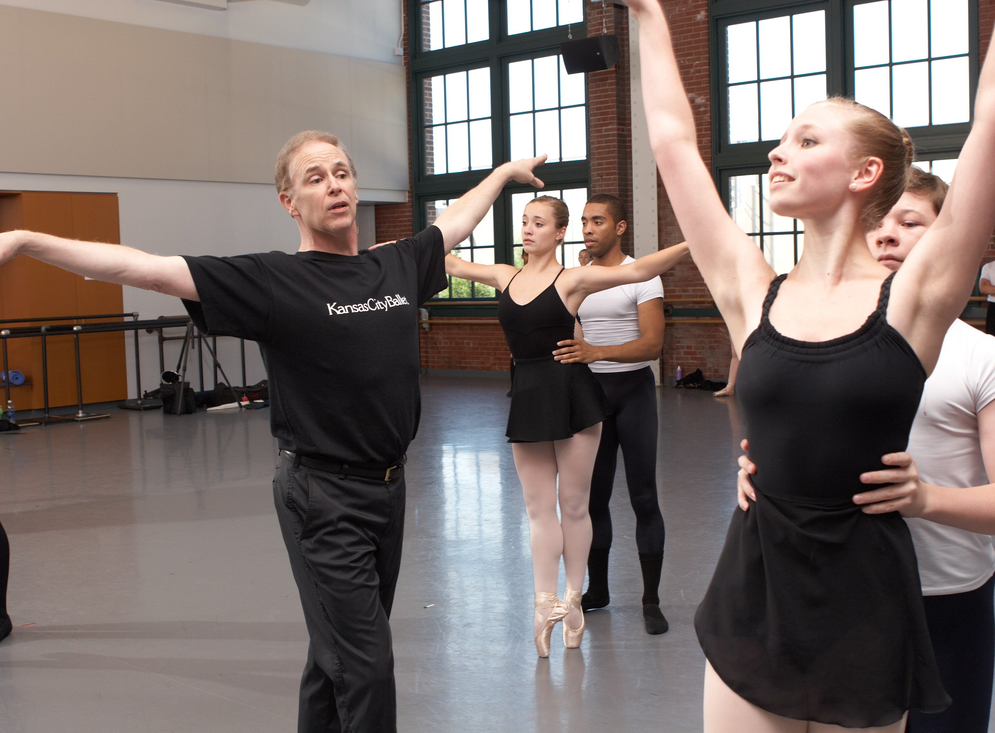 KCB Artistic Director Devon Carney teaching class. Photography Ken Coit.